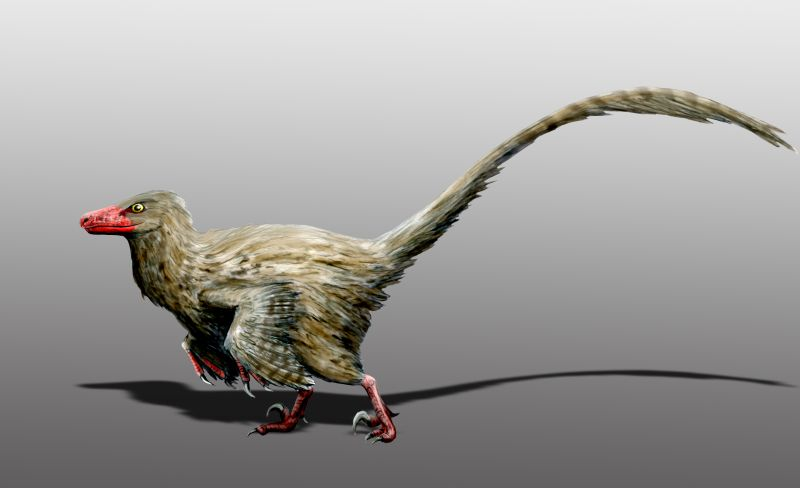 Hesperonychus elizabethae, Late Cretaceous of Canada. Digital.